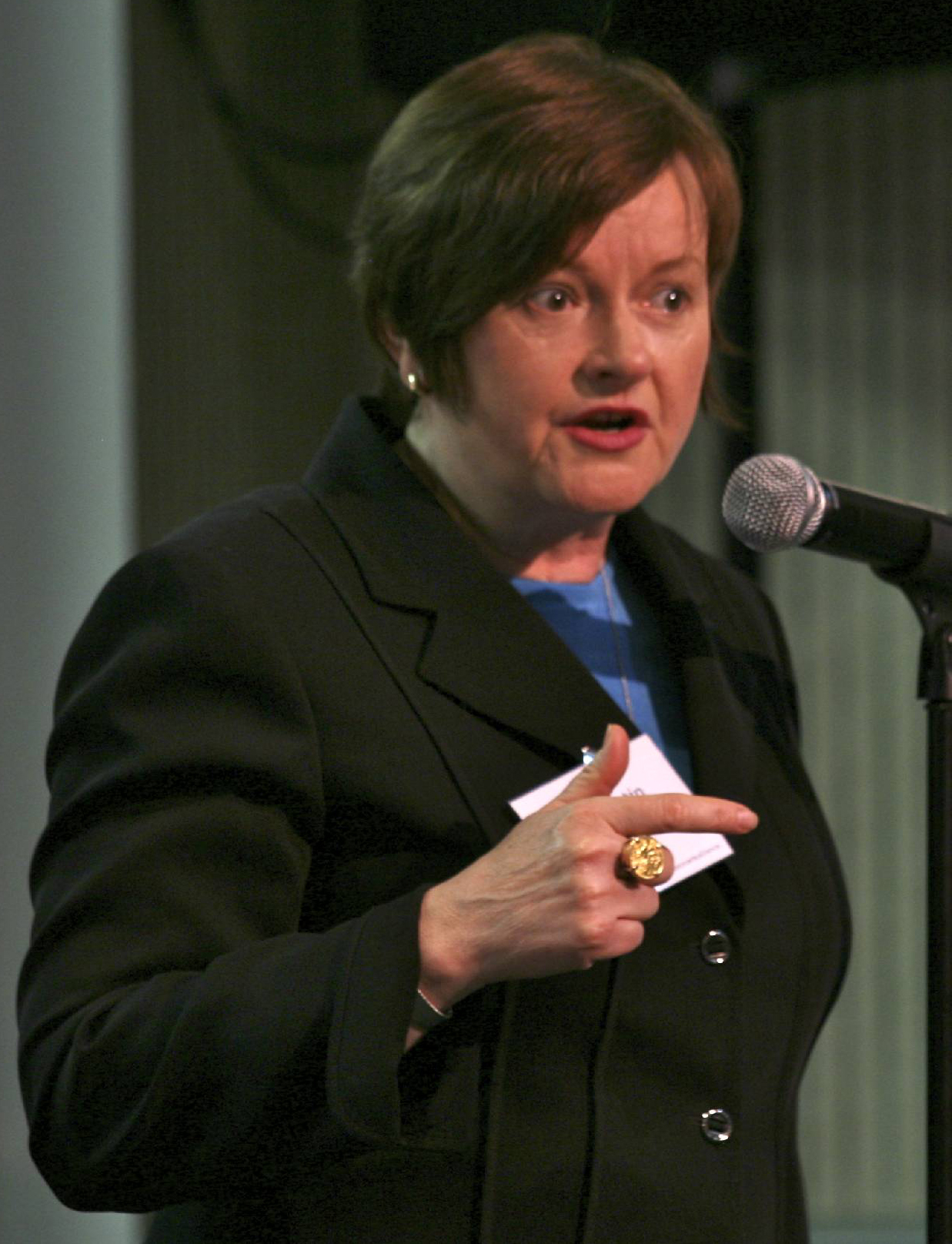 Patricia Martin presenting RENGEN to the Houston Arts Alliance at the Ensemble Theater in May 2008.